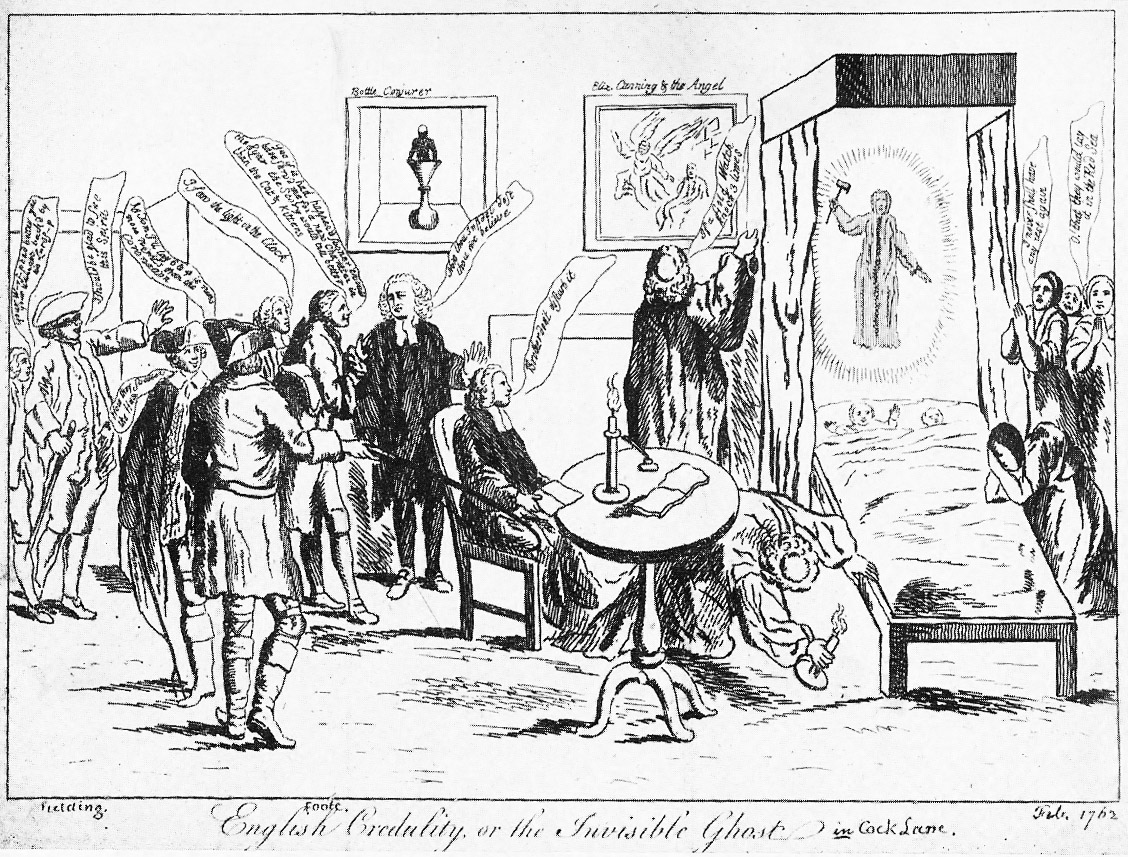 English credulity, or the invisible ghost On the right, two children lie in a bed, at the head of which appears a ghostly figure brandishing a hammer. To the left of the bed, a cleric is looking up at a picture.